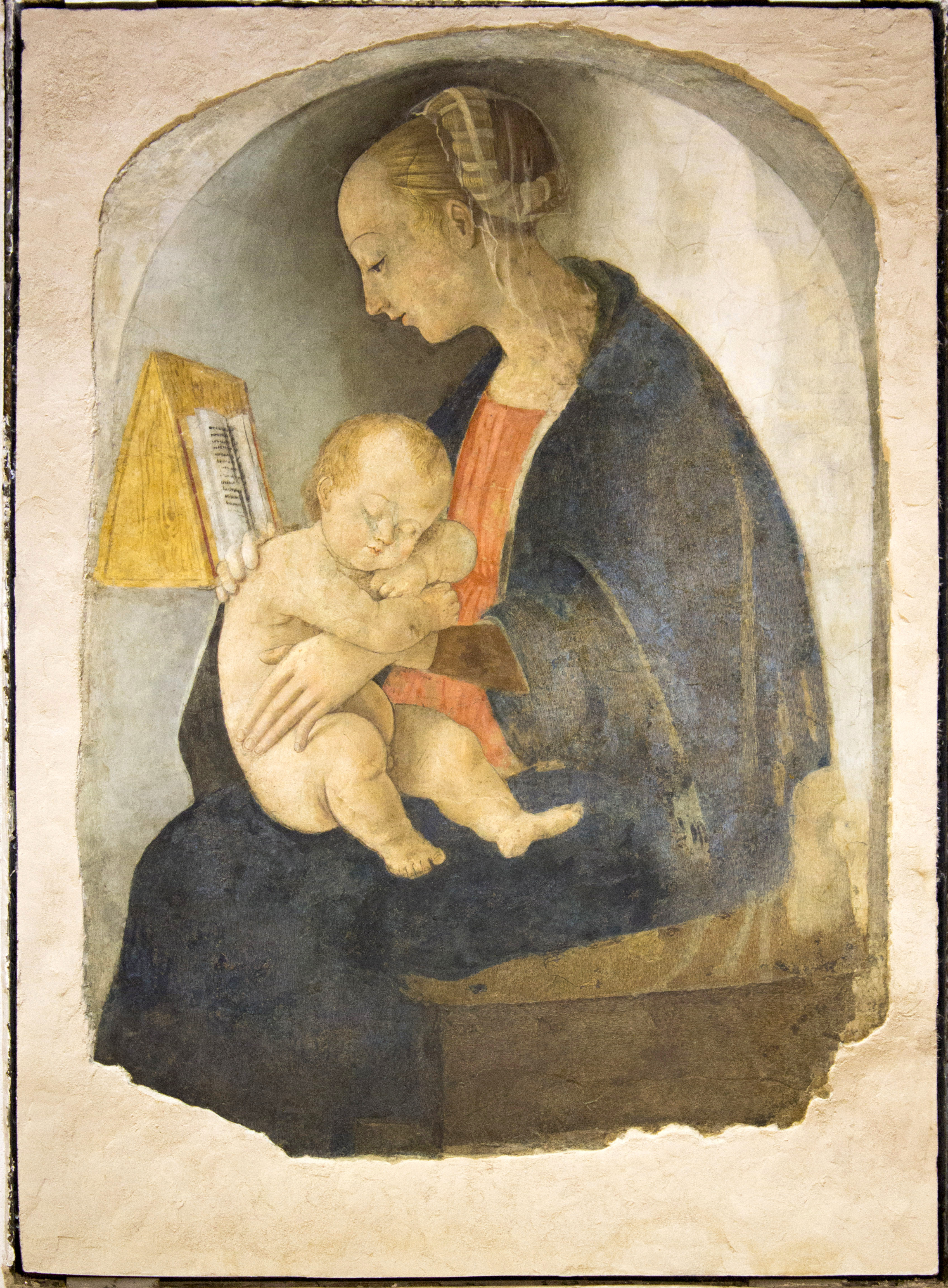 Virgin Mary reading, Birthplace of Raphael, Urbino, Marche, Italia